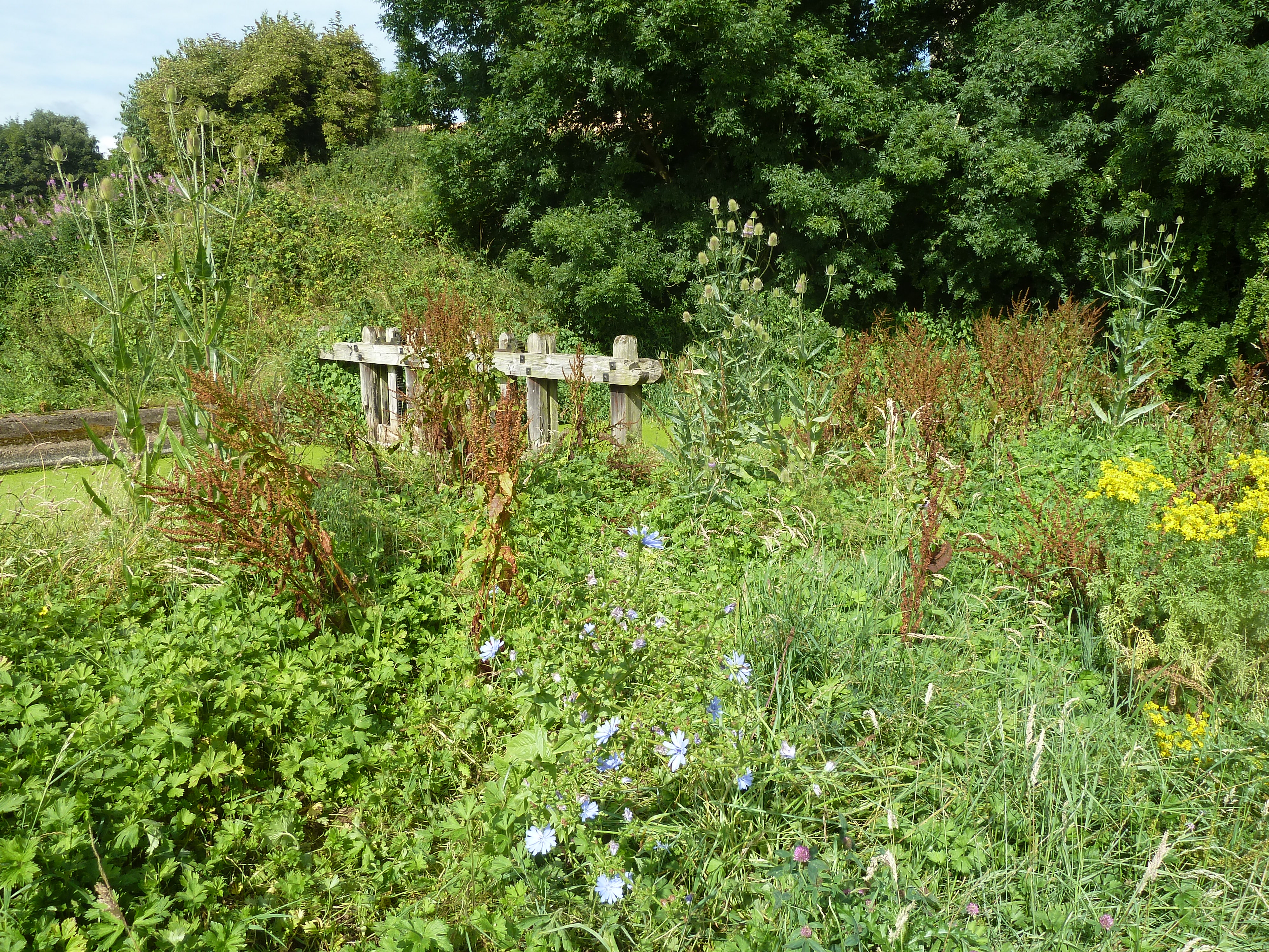 Hilden, Co. Antrim, Ireland Nature July